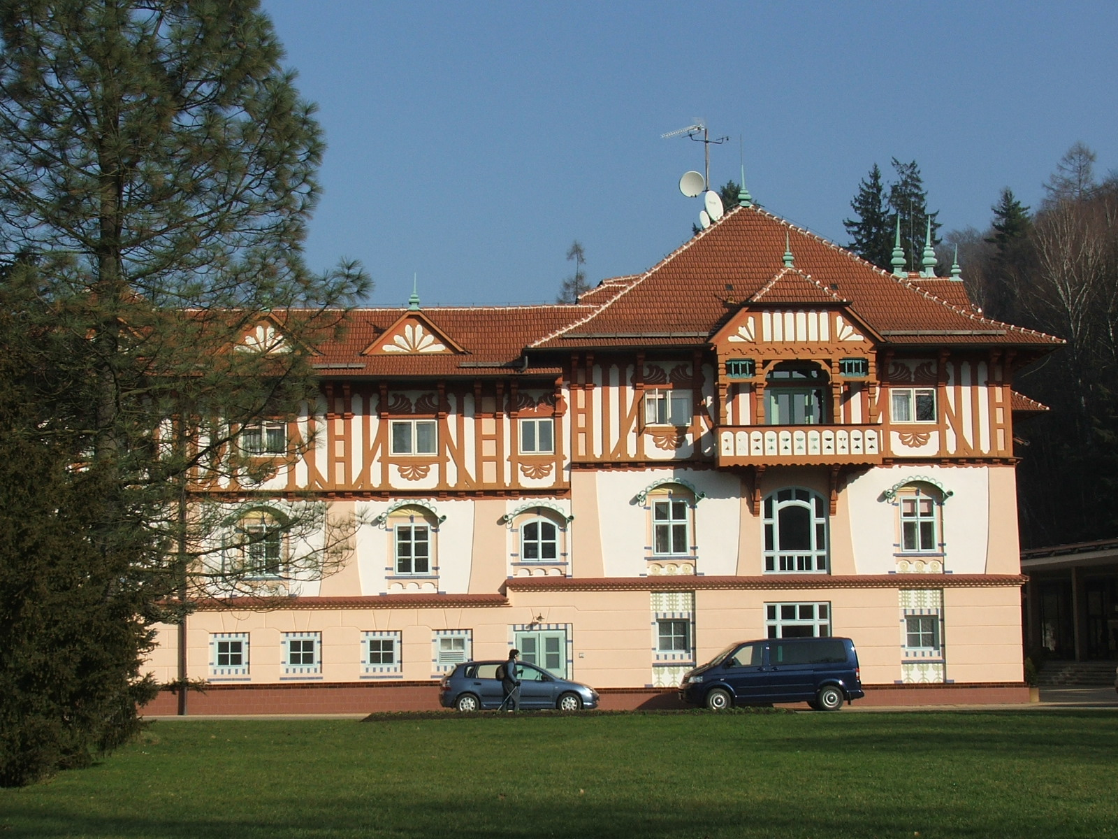 Spa houses and hotels in Luhačovice, Zlín Region, Moravia, Czechia